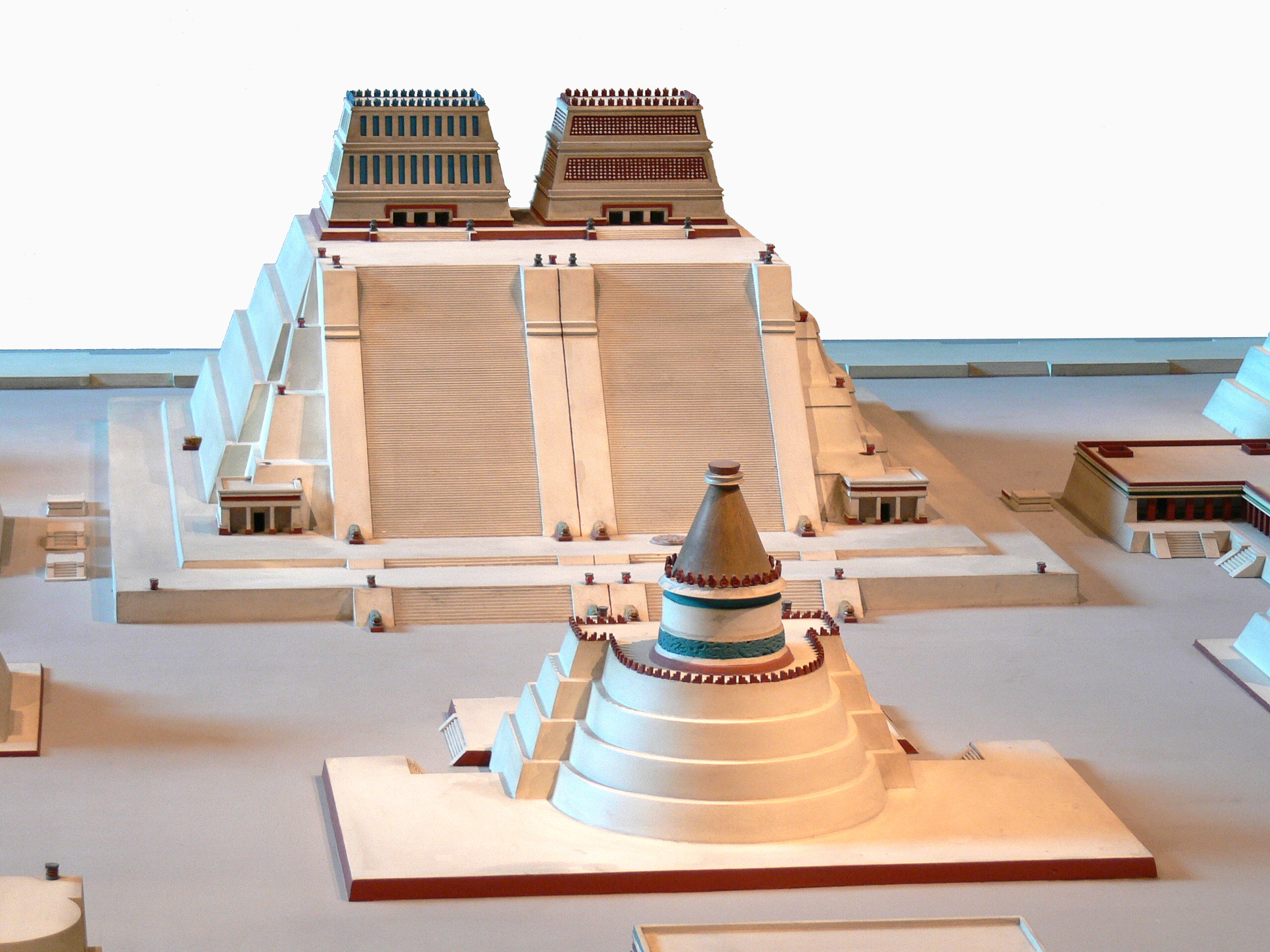 National Museum of Anthropology in Mexico City. Reconstruction of the Templo Mayor of Tenochtitlan